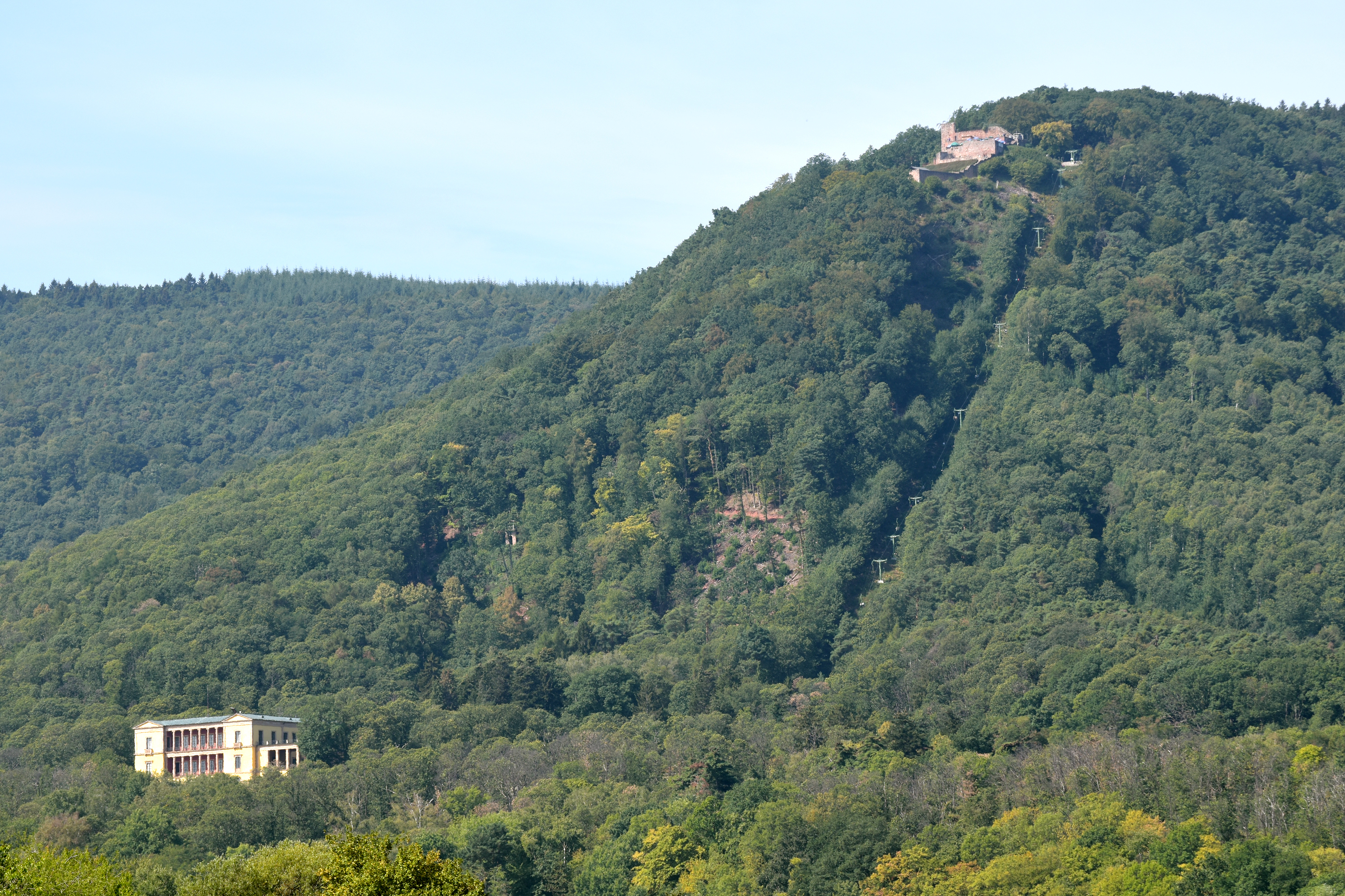 Blättersberg